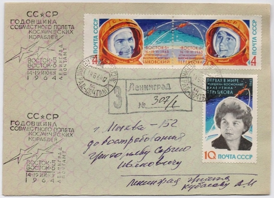 USSR 1964-06-14 cover sent registered from Leningrad to Moscow, franked with 1963 space issue Tereshkova and Bykovski. Catalogue: Mi.2782-84, Sc. 2748-53.